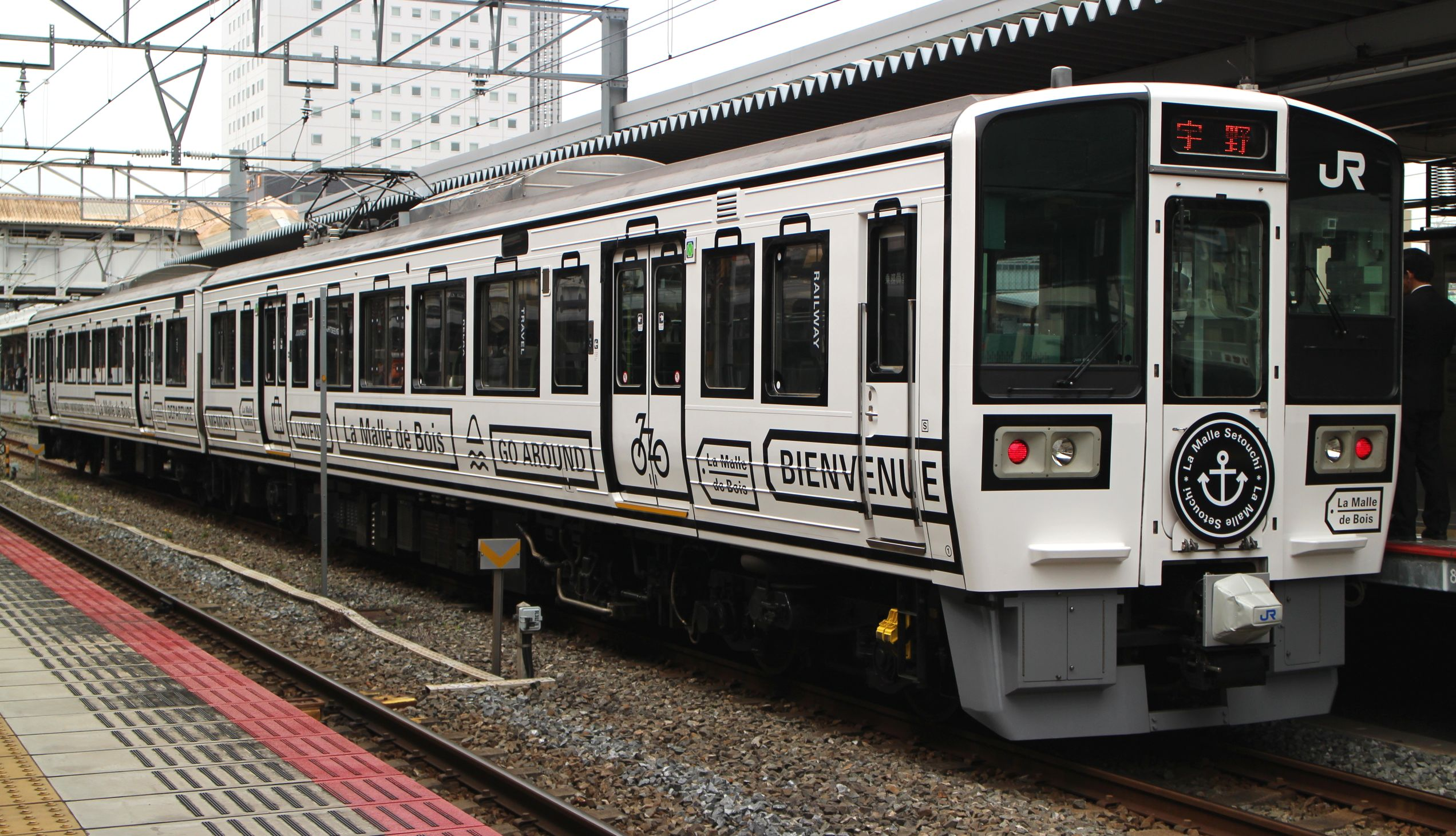 The JR West 213 series La Malle de Bois tourist train at Okayama Station